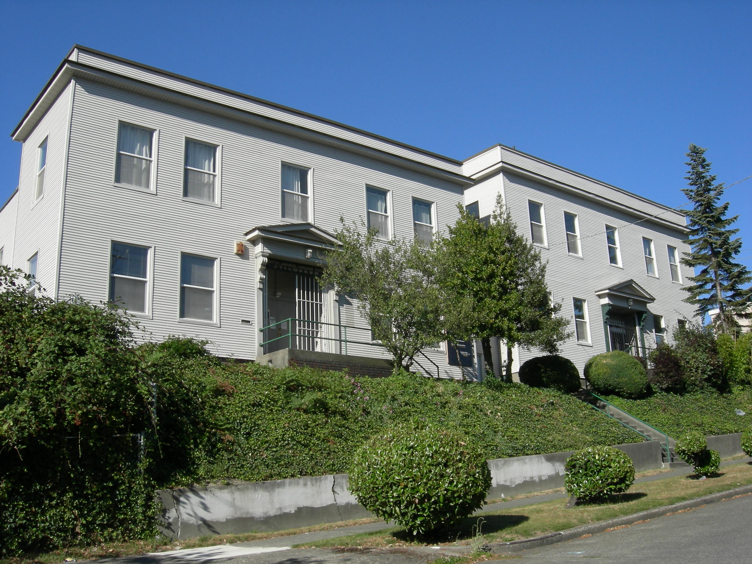 Nihon Go Gakko (or "Nihongo Gakko", Japanese language school), 1414 S Weller Street, Seattle, Washington. The oldest operating Japanese language school in the continental U.S. Located roughly on the border between the International District and Central District. Listed in the National Register of Historic Places, ID #82004245 and (as Japanese Language School) as a city landmark. The building also houses the Northwest Nikkei Museum, Nikkei Library, Budokan Dojo, and several other Japanese-American institutions. This picture shows Buildings 1 (right) and 2 (left); Building 3 is behind.